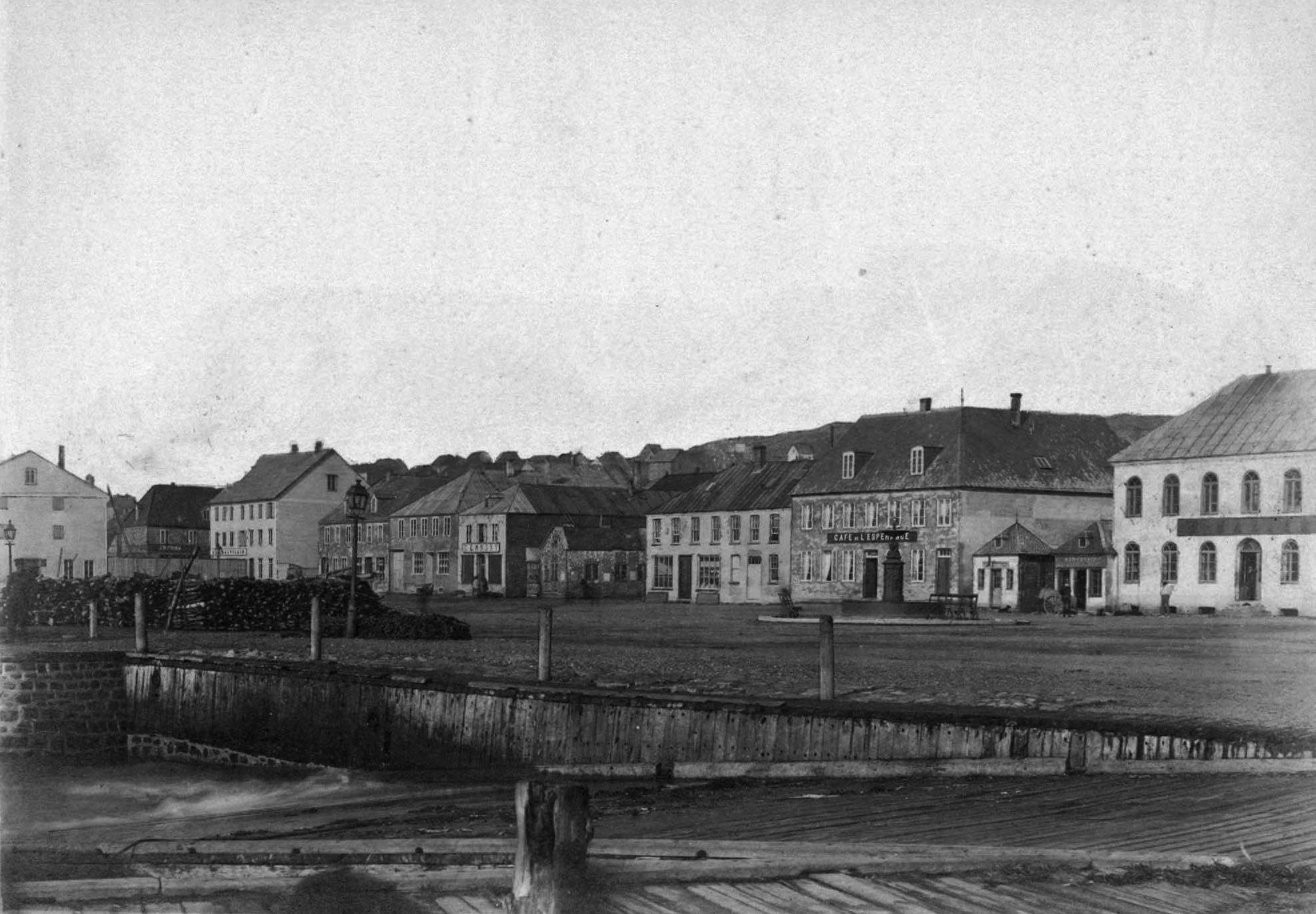 Titre : [42 phot. de Saint-Pierre et Miquelon, de Cap-Breton, de Terre-Neuve, du Labrador, par Julien Thoulet, donateur en 1887] Auteur : Thoulet, Julien (1843-1936). Photographe. Donateur Date d'édition : 1887 Sujet : Canada Sujet : Arctique Sujet : Saint Pierre et Miquelon, Îles Sujet : Cap-Breton, Île du Sujet : Terre-Neuve, Île de Sujet : Labrador, Péninsule du Type : image fixe,photographie Langue : Français Format : 42 phot. Format : image/jpeg Droits : domaine public Identifiant : ark:/12148/btv1b6700402k Source : Bibliothèque nationale de France, département Société de Géographie, SGE SG WF-79 Relation : Couverture : Arctique Couverture : Saint-Pierre-et-Miquelon (France) Couverture : Canada – Terre-Neuve Provenance : bnf.fr